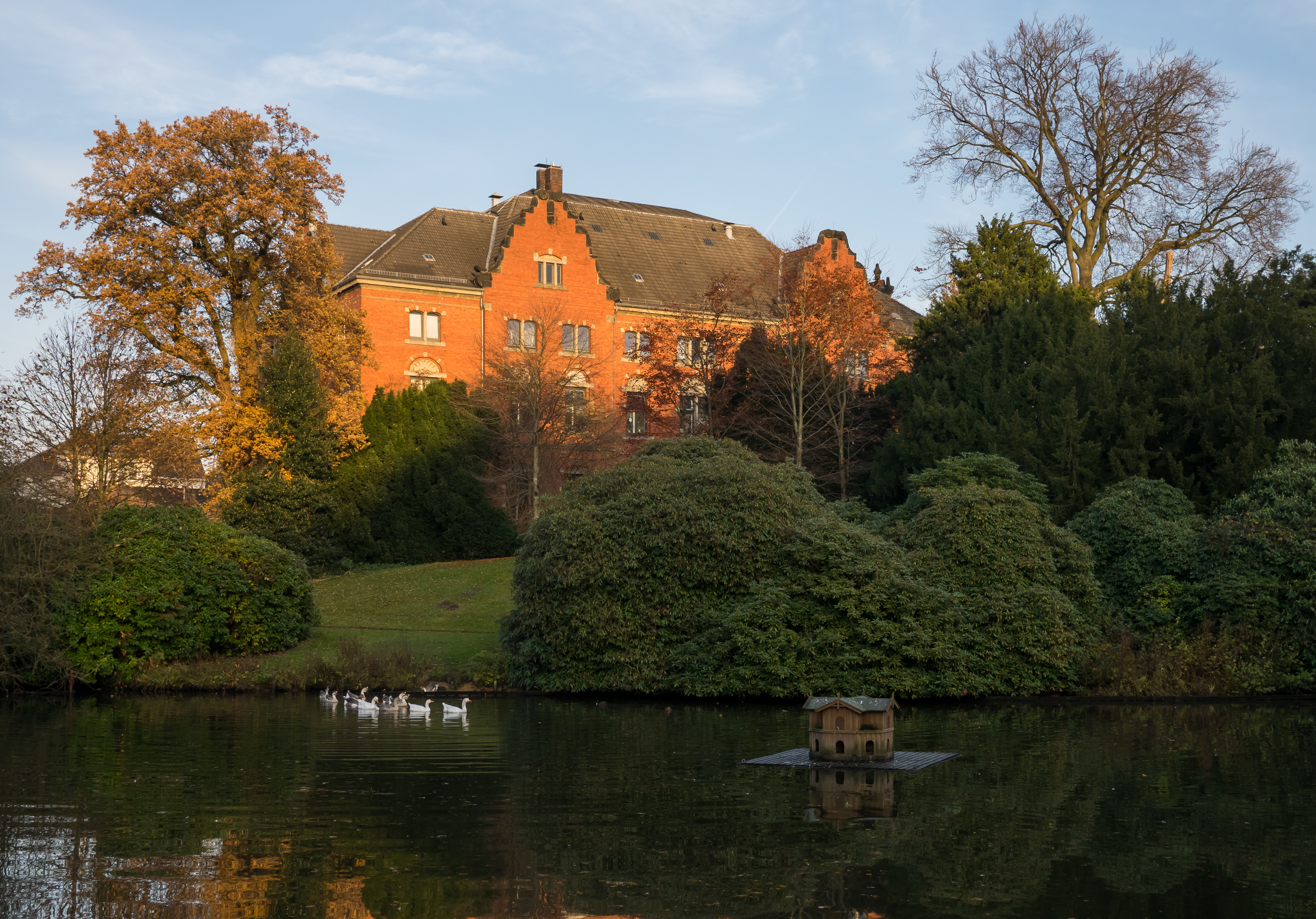 Pond at Schlossgarten (palace garden) in Oldenburg, building Elisabeth-Anna-Palais. Lower Saxony, Germany